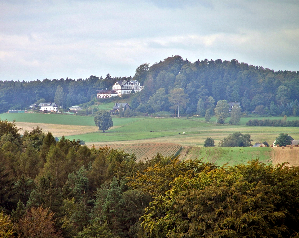 Wolfsberg (343 metres), Saxon Switzerland.